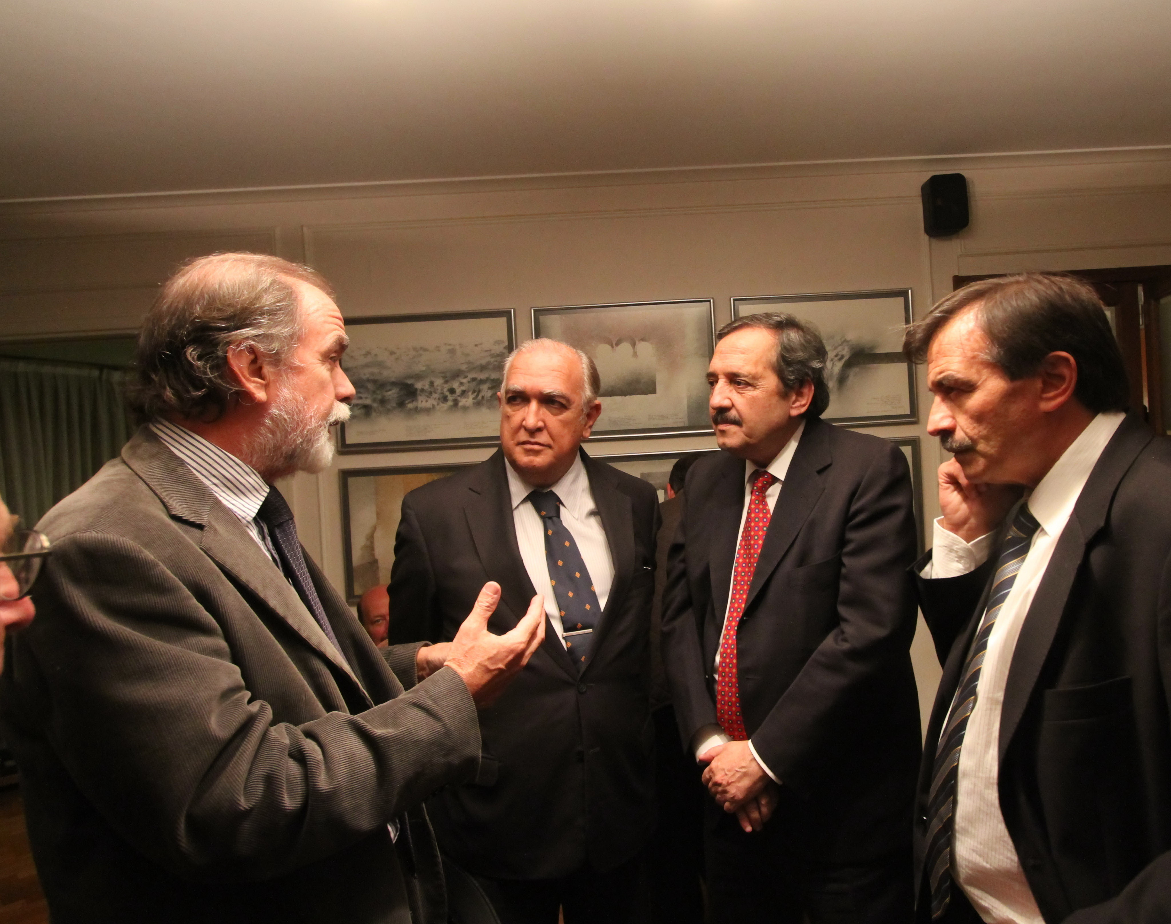 UCR politicians Javier González Fraga, Ricardo Gil Lavedra, Ricardo Alfonsín, and Miguel Bazze confer following the June 2, 2011, announcement of the Alfonsín - González Fraga ticket.